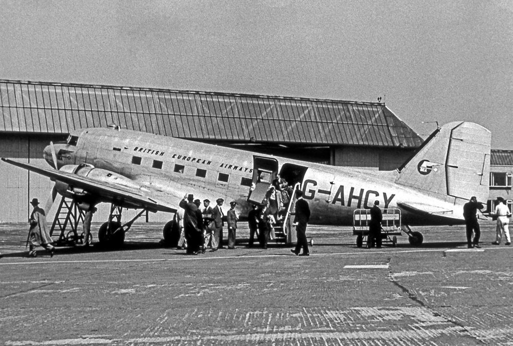 Douglas C-47A Dakota G-AHCY of British European Airways at Manchester Ringway Airport in 1949